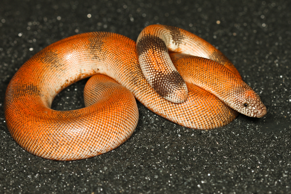 This snake is a juvenile and shows bright coloration. As the snake matures it will become a more uniform brown or tan color.